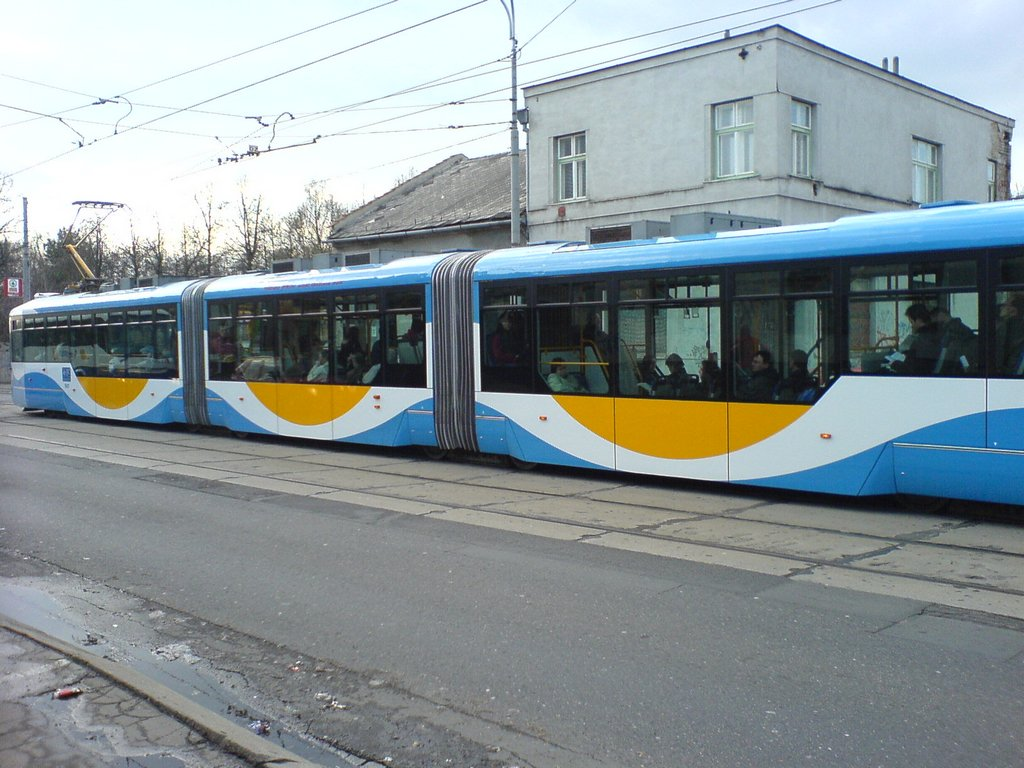 Vario LF3 tram